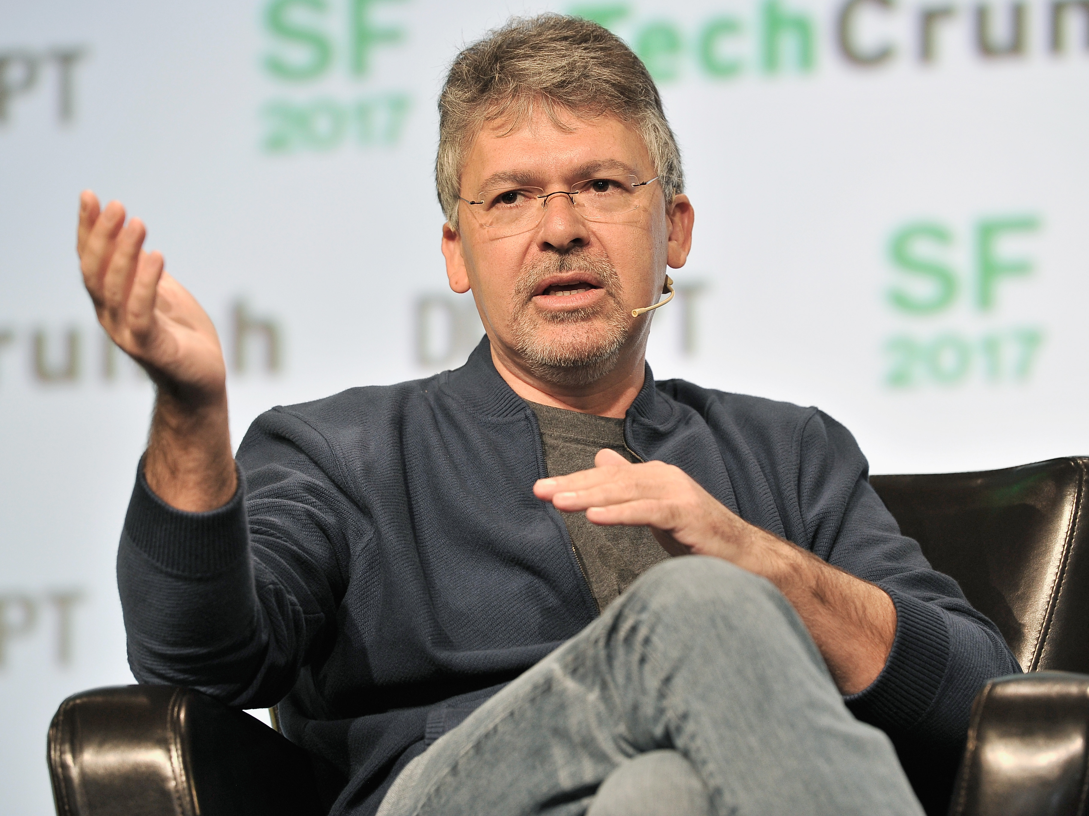 SAN FRANCISCO, CA - SEPTEMBER 19: Google's Senior VP of Engineering John Giannandrea speaks onstage during TechCrunch Disrupt SF 2017 at Pier 48 on September 19, 2017 in San Francisco, California. (Photo by Steve Jennings/Getty Images for TechCrunch)